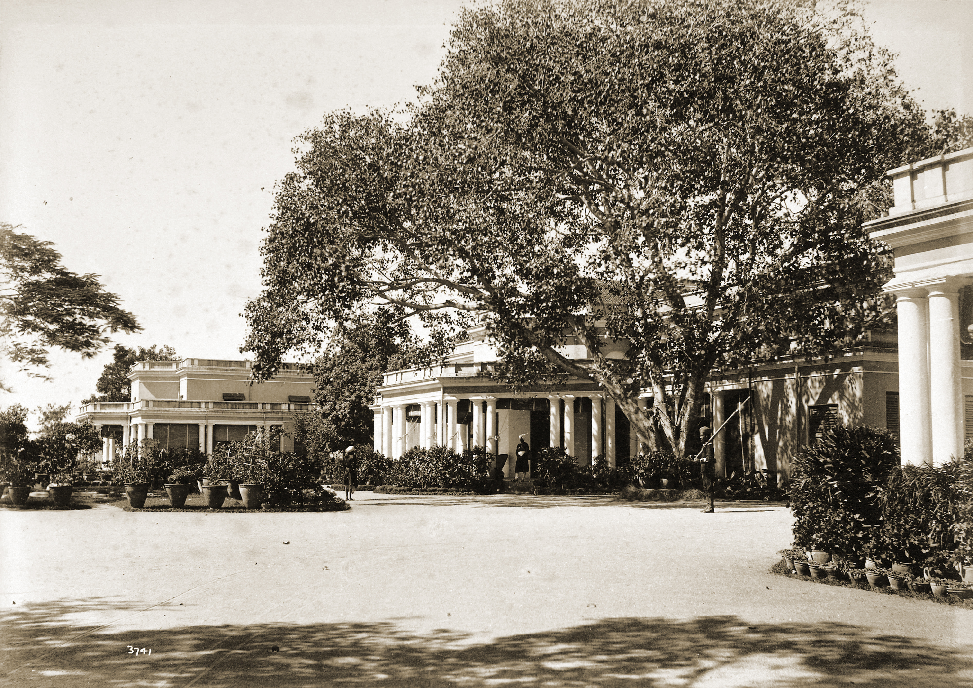 View of the Residency House, Bolarum, Andra Pradesh, photographed by Deen Dayal in the 1880s. This was the country house of the former British Resident at Bolarum, near Secunderabad, constructed in 1860. Presently known as Rashtrapathi Nilayam